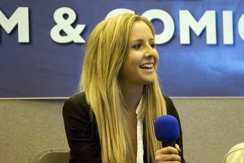 Angie Mandy at Comic-Con